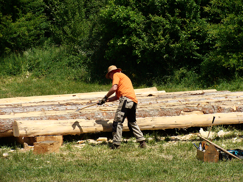 Construction of the synagogue roof replica at Sanok Skansen